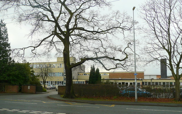 Congleton High School Situated on the western outskirts of the town, on Box Lane, West Heath.